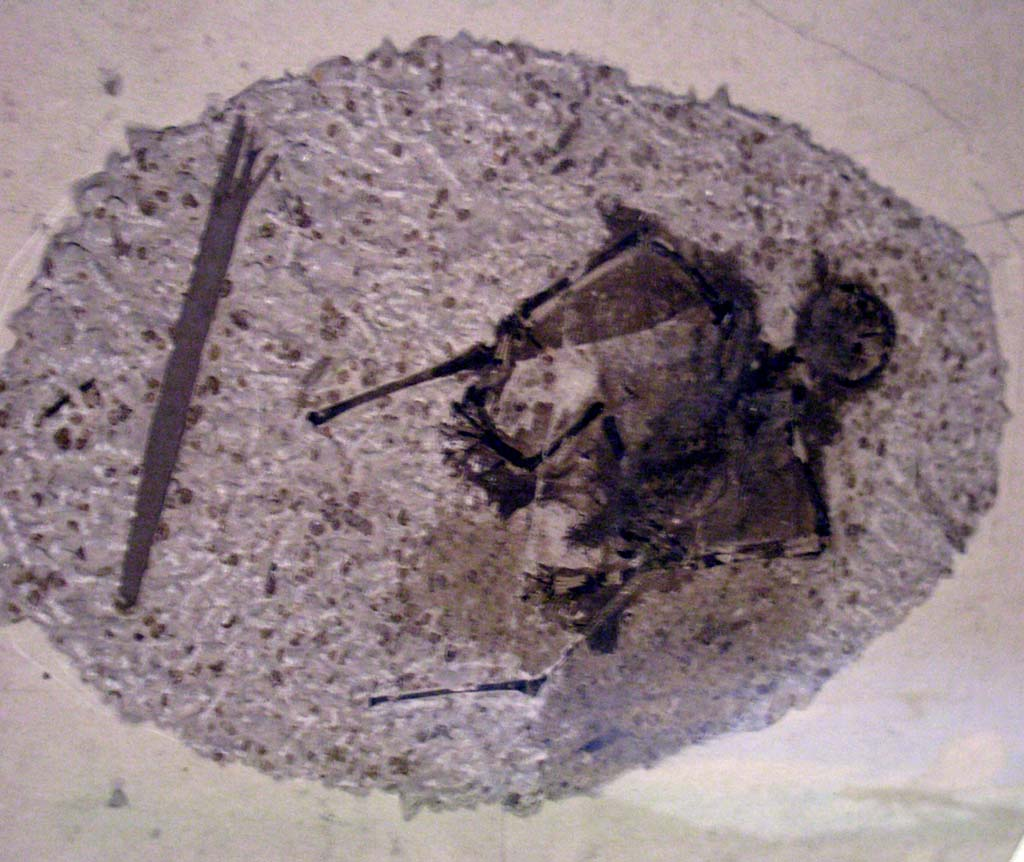 Fossil specimen of an anurognathid pterosaur (Jeholopterus sp.) displayed in Hong Kong Science Museum. This specimen was the first pterosaur described from China which included remnants of the soft tissue (Ji & Yuan, 2002). It was tentatively classified as Jeholopterus by Elgin et al., 2011. Ji Q. and Yuan C. 2002. Discovery of two kinds of protofeathered pterosaurs in the Mesozoic Daohuguo Biota in the Ningcheng Region and its stratigraphic and biologic significances. Geological Review, 48(2): 221-224. Elgin, R. A., Hone, D. W., & Frey, E. (2011). The extent of the pterosaur flight membrane. Acta Palaeontologica Polonica, 56(1), 99-111.